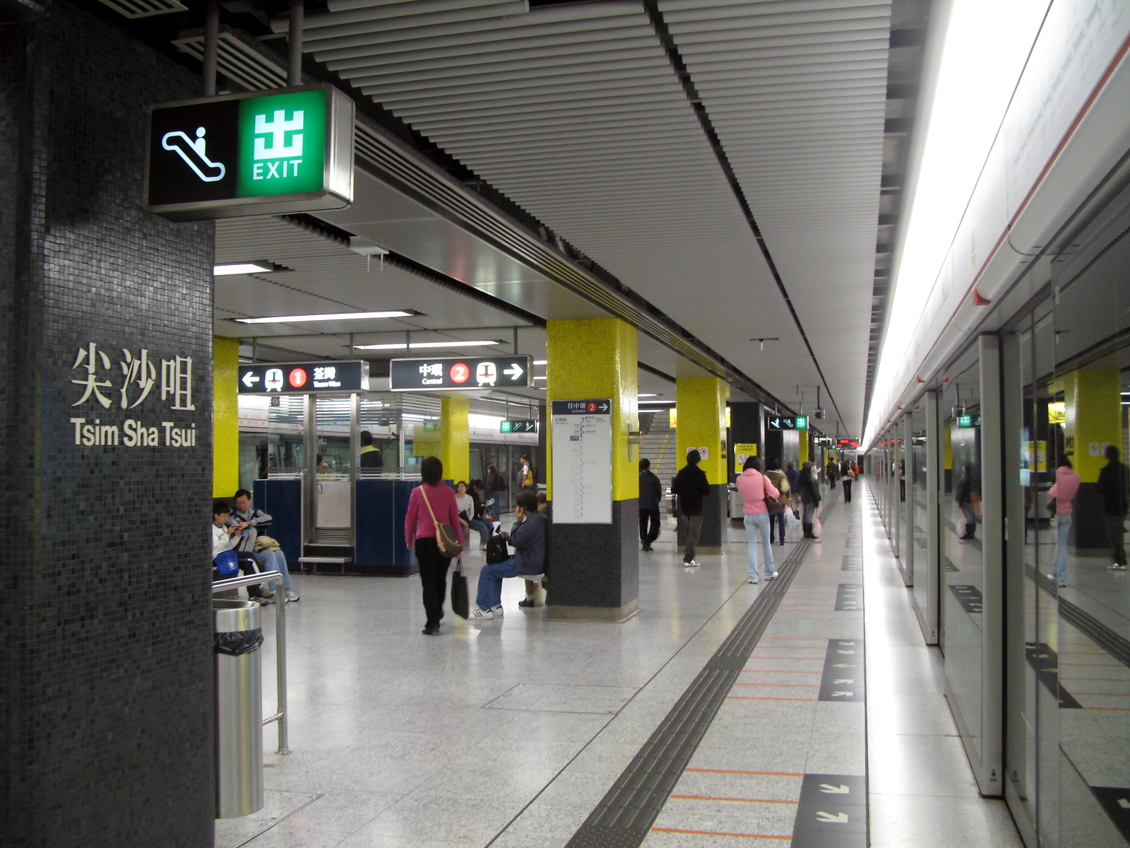 HK MTR Tsim Sha Tsui Platform